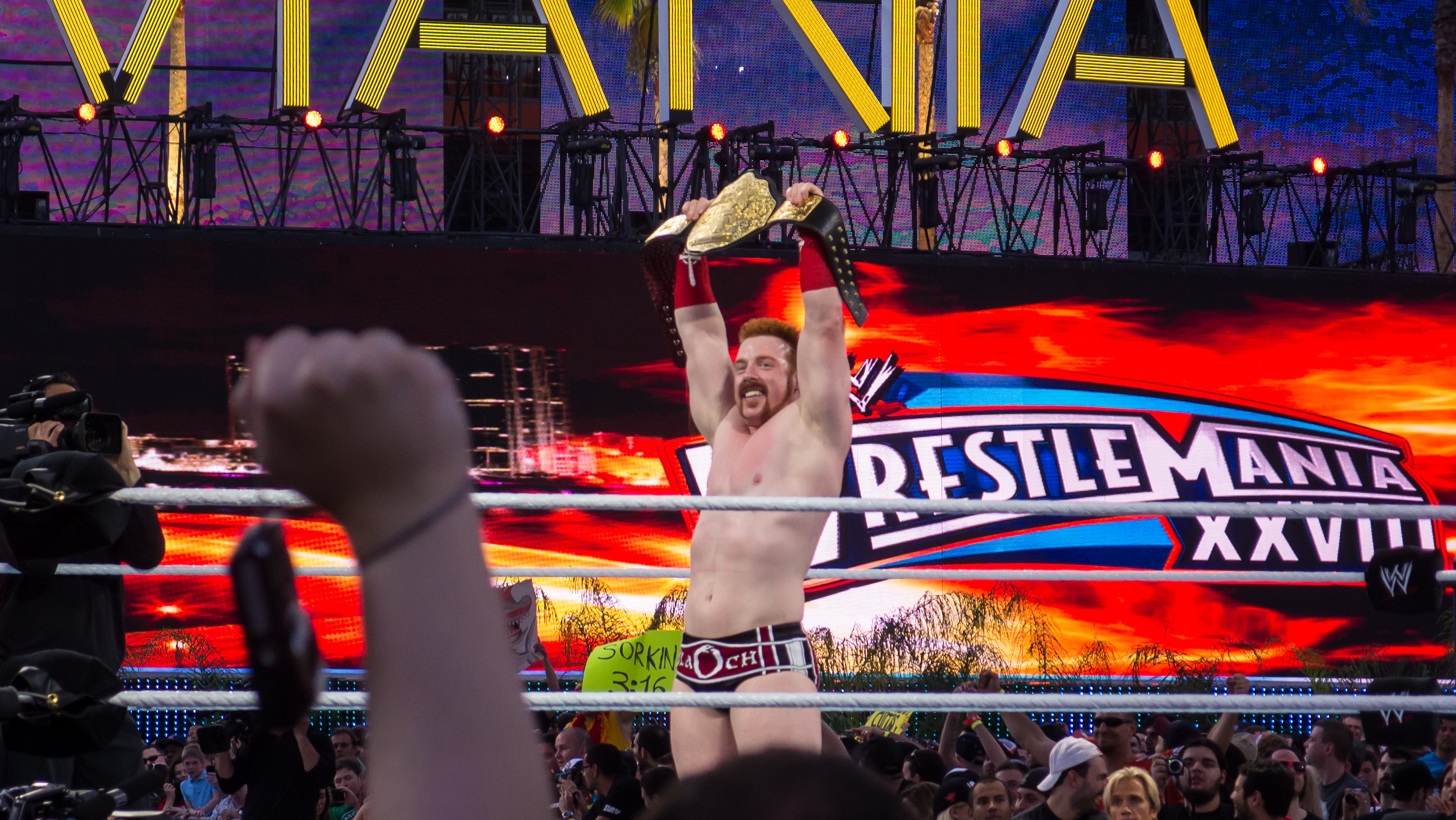 Sheamus at Wrestlemania XXVIII